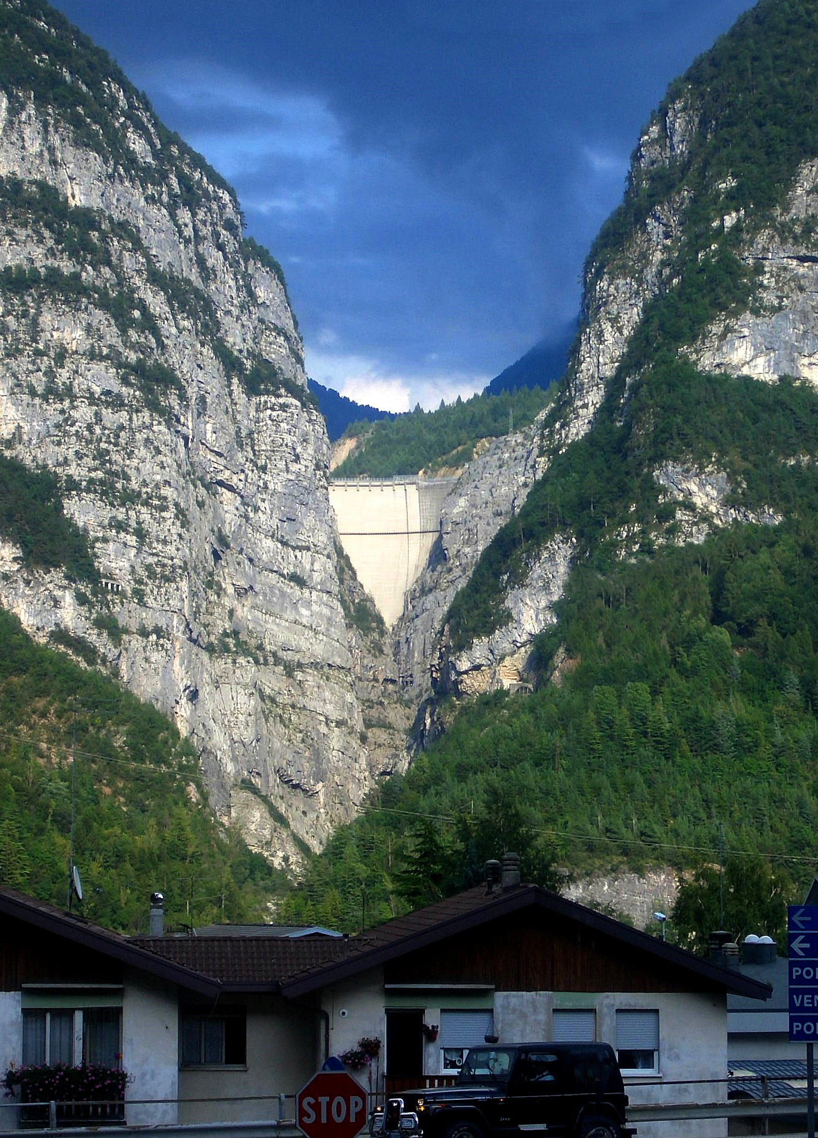 Vajont dam